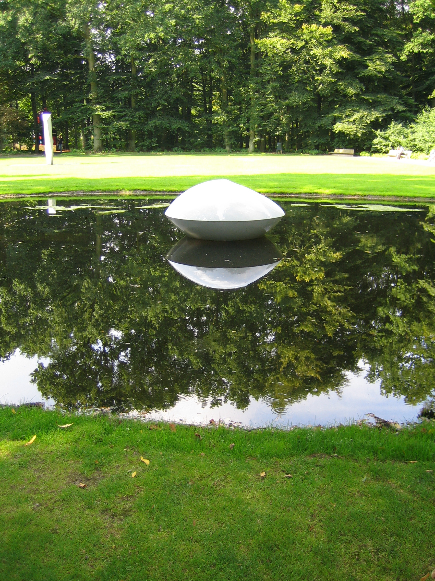 Sculpture park Kröller-Müller Museum in the Netherlands